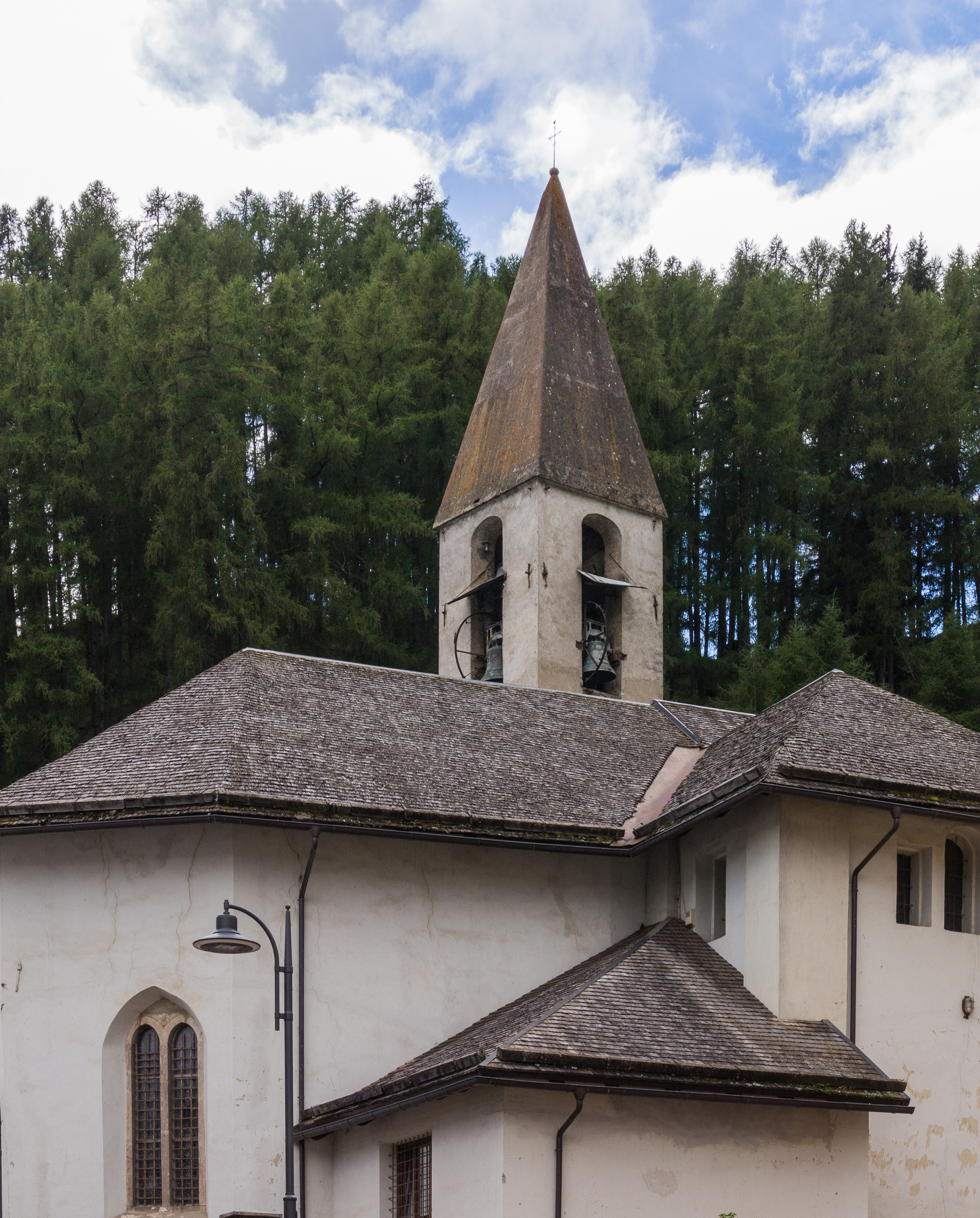 Stroll across the botanical path from Cogolo to Peio Paese.